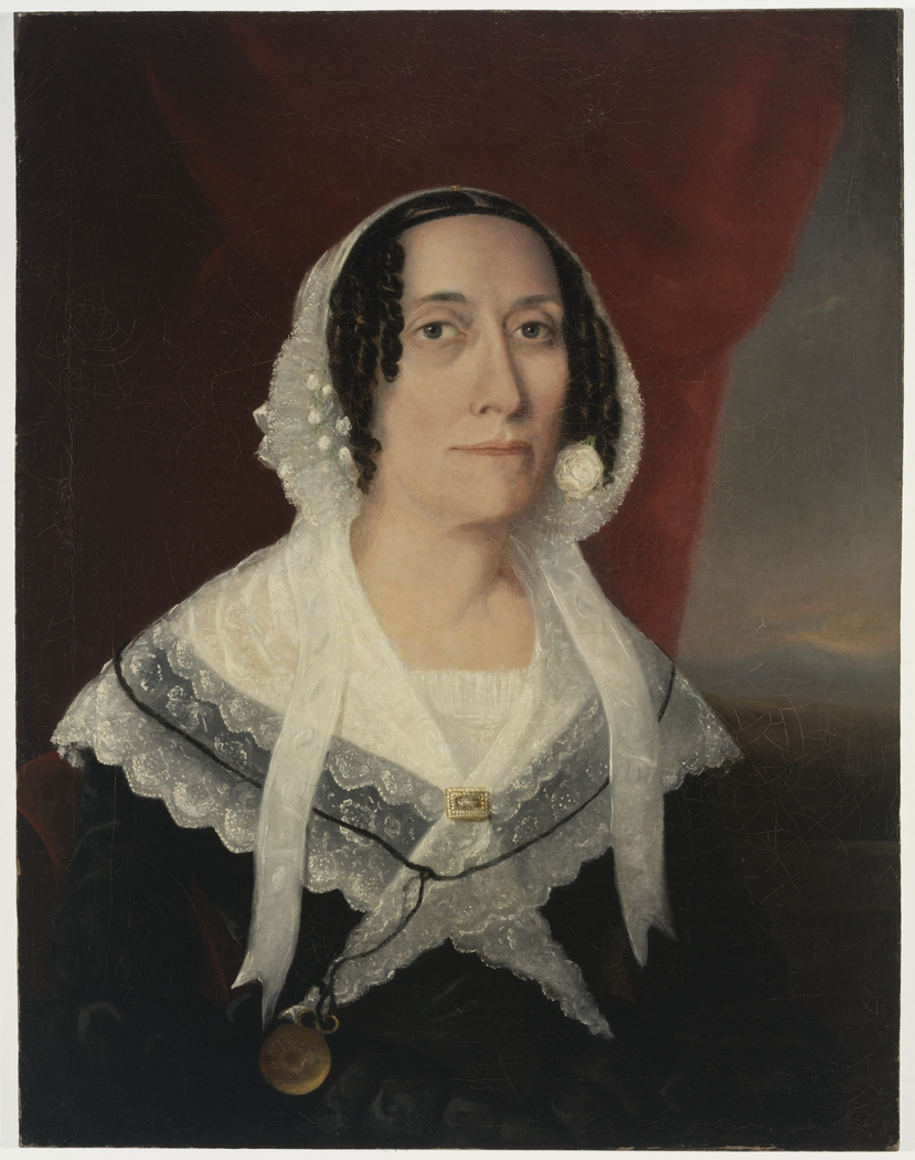 Portrait of Jane Dunlop.